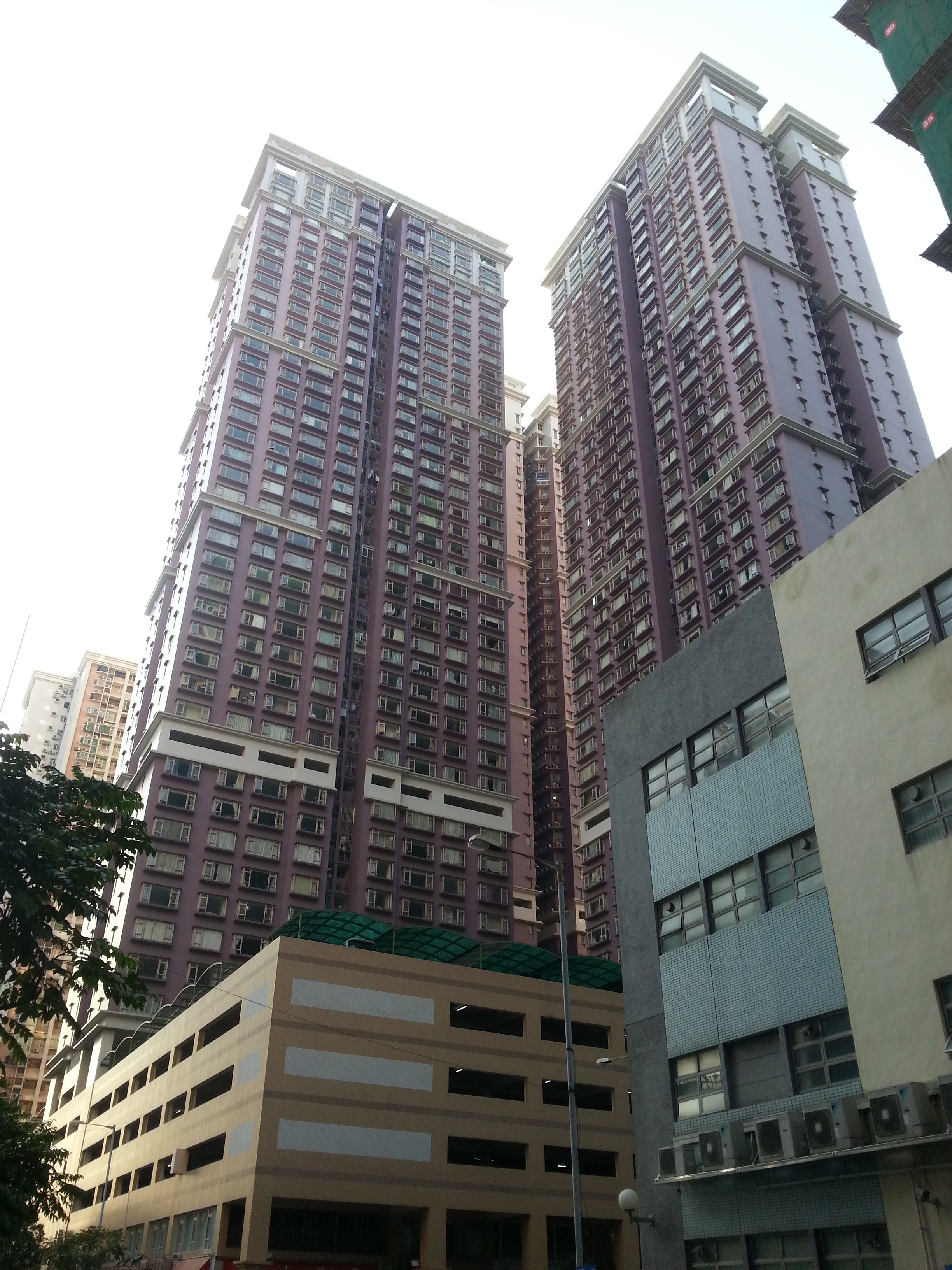 Residential property called Supreme Flower City in Taipa, Macau.